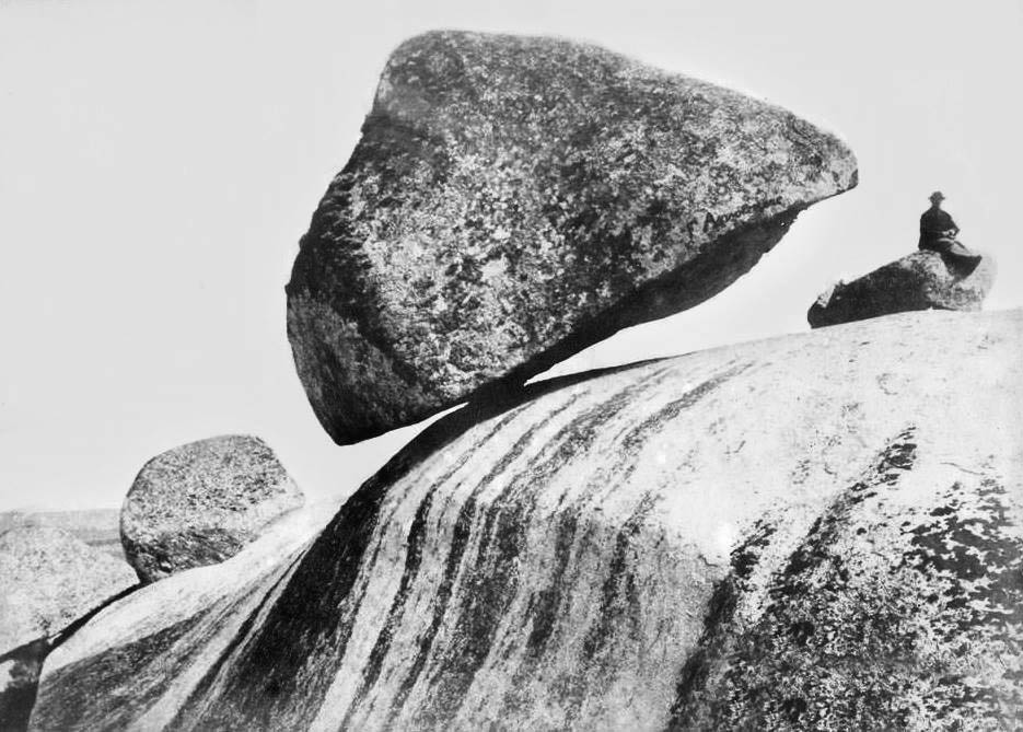 Moving stone of Tandil, one of the main attractions of the city, that toppled in 1912.